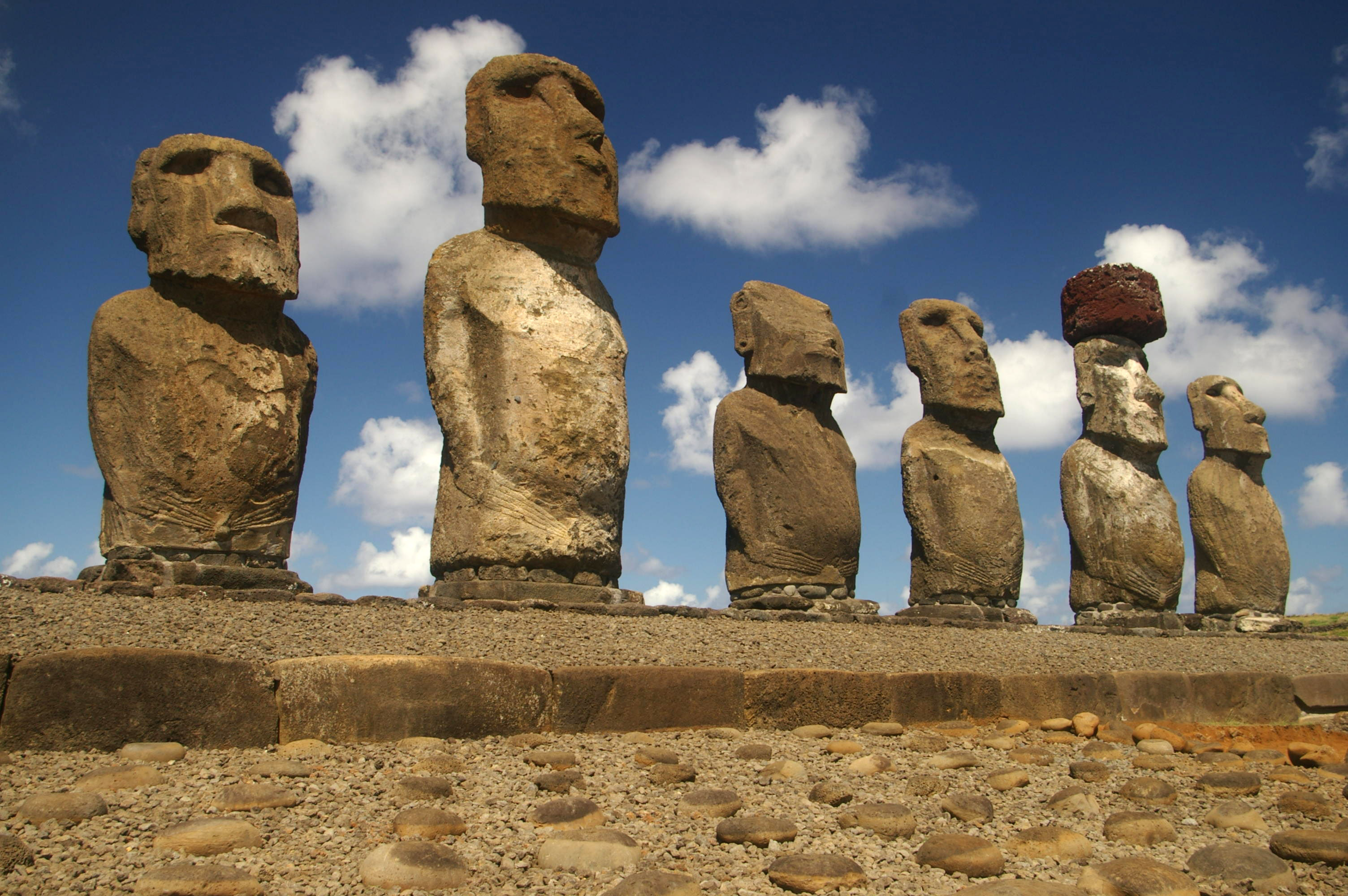 Six of the 15 Ahu Tongariki Moais